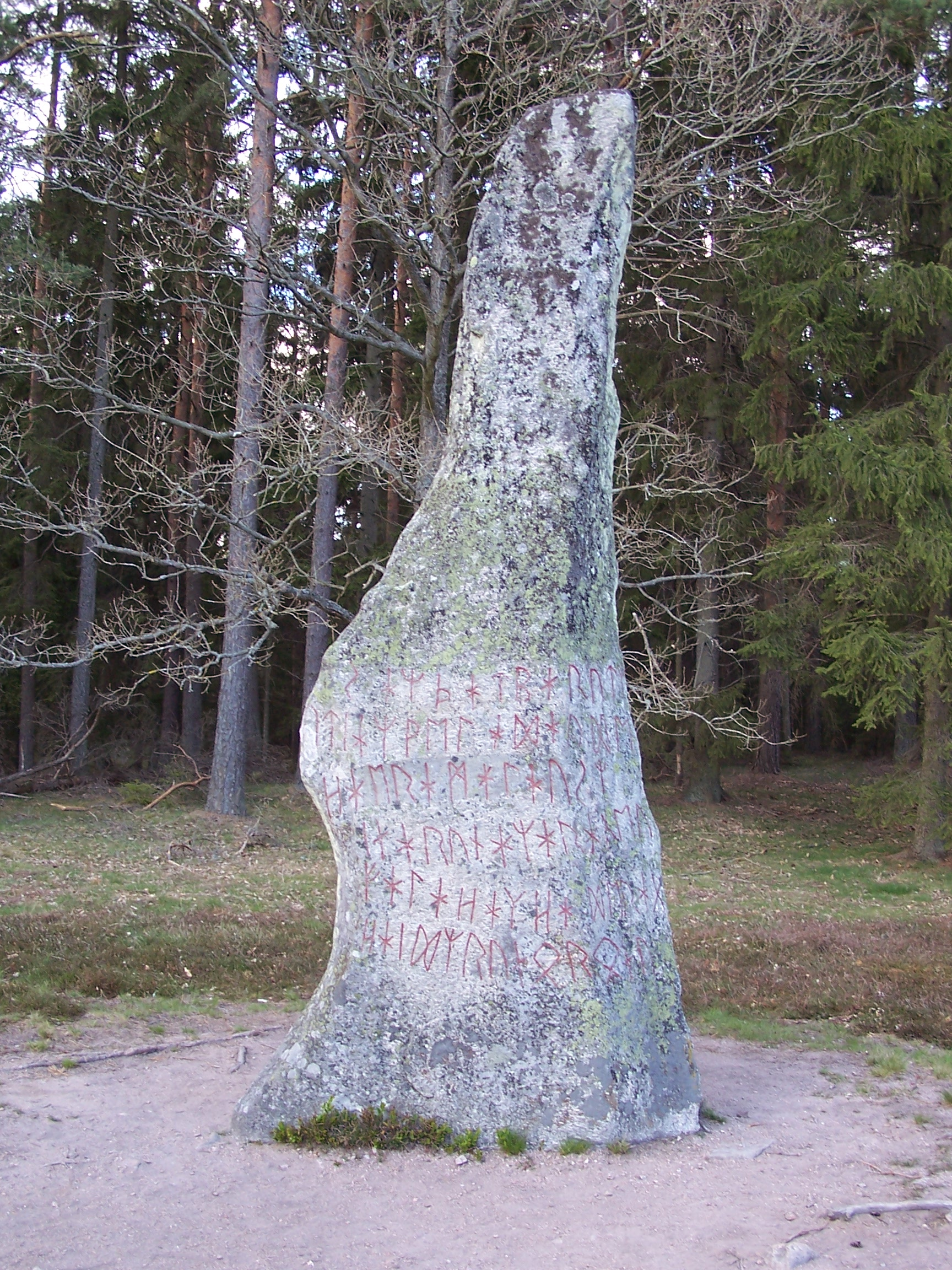 Björketorpsstenen (Björketorp Stone) at Björketorp, municipality of Ronneby